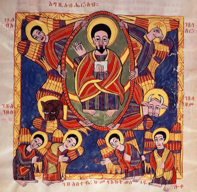 British Library Or. MS 481, f.110v - Christ in Glory, commissioned by Emperor Iyasu I Yohannes of Ethiopia for use in his royal city of Gondar.